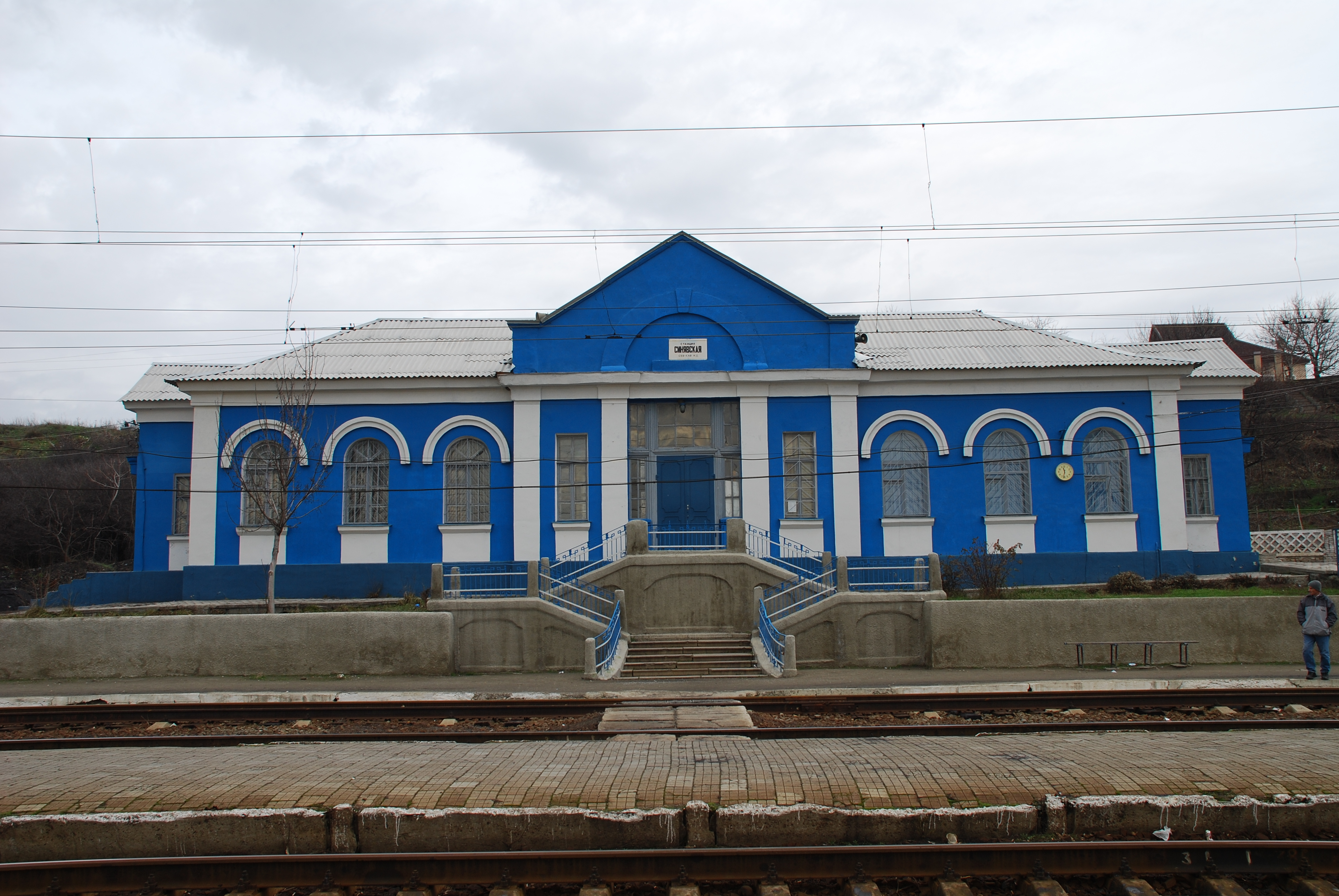 Sinyavskaya railway station.